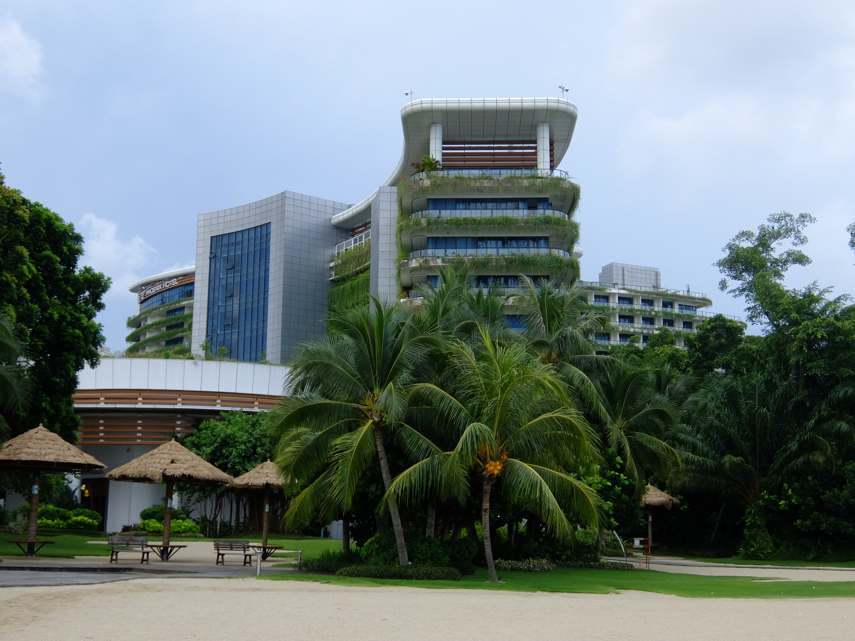 Forest City Phoenix International Marina Hotel, Forest City, Tanjung Kupang, Iskandar Puteri, Johor Bahru, Johor, Malaysia